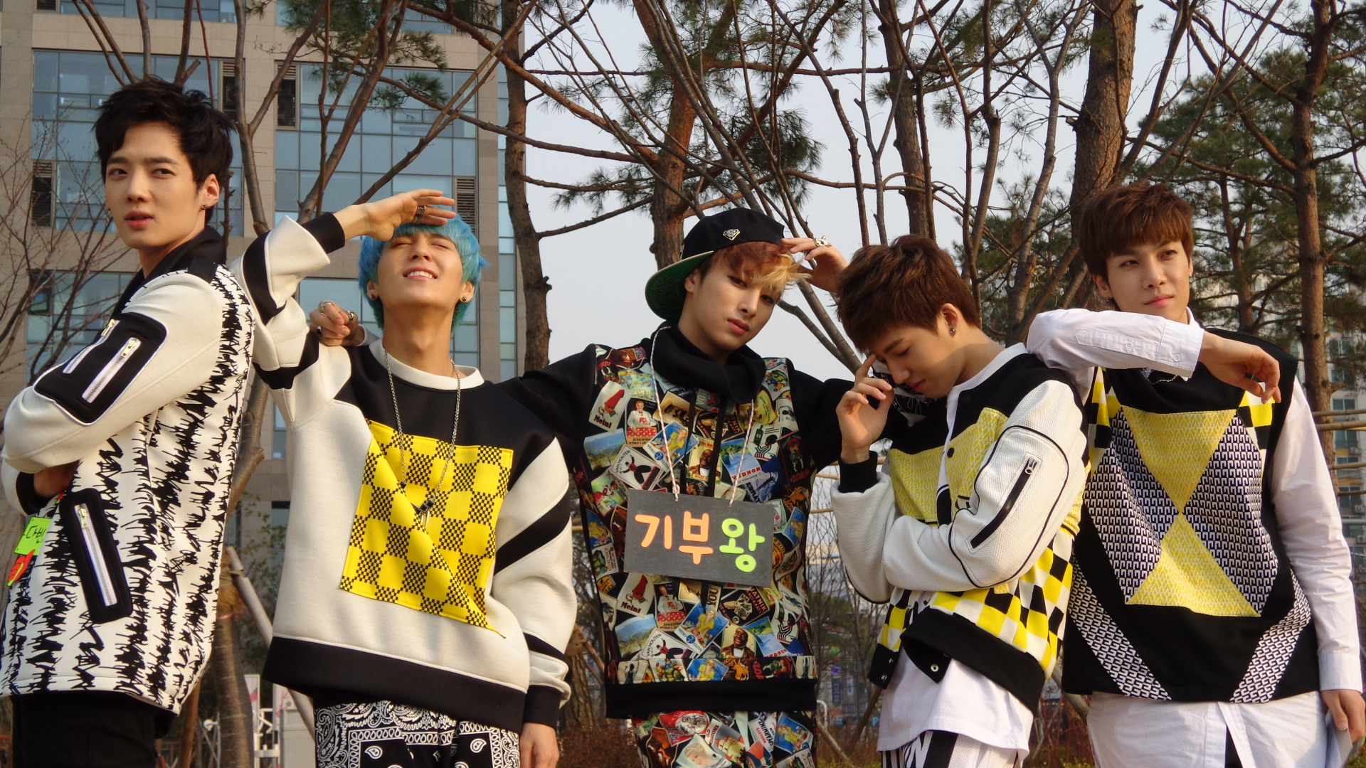 Boys Republic mini fan meet after their "Video Game" performance on Inkigayo. March 16th of 2014. From left to right: Sunwoo, Suwoong, Minsu, Sungjun, and Onejunn.